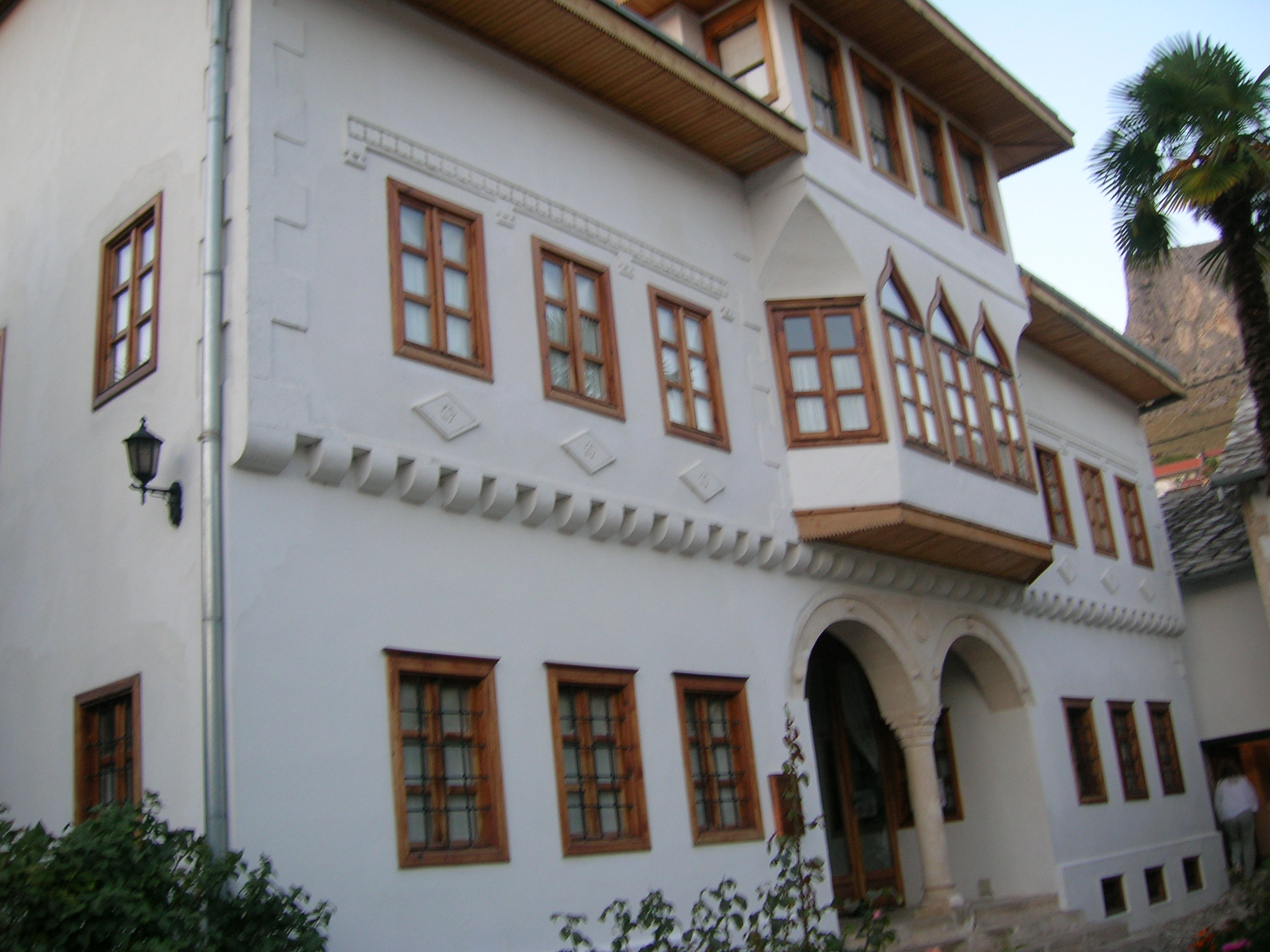 The "National Monument of Hercegovina" and my (cheap) hotel in Mostar. I felt lhonoured to stay here.